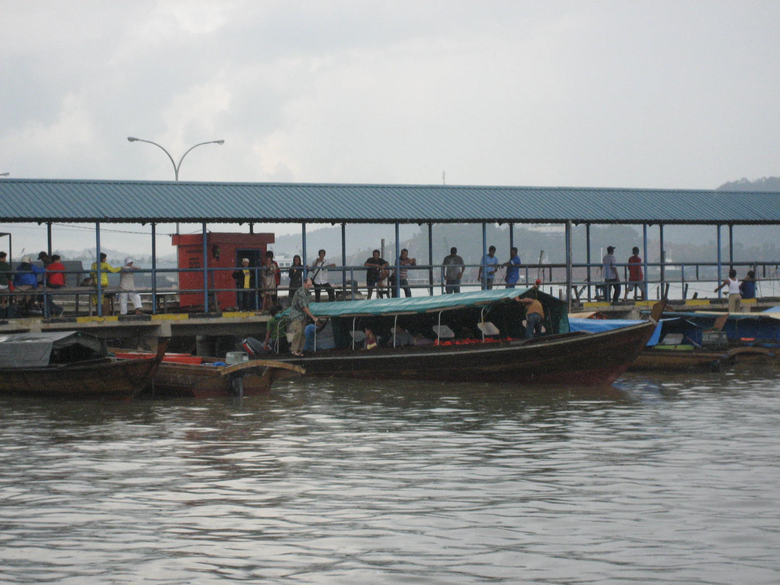 Pompong boat for short distance connections in Batam and nearby islands, Indonesia